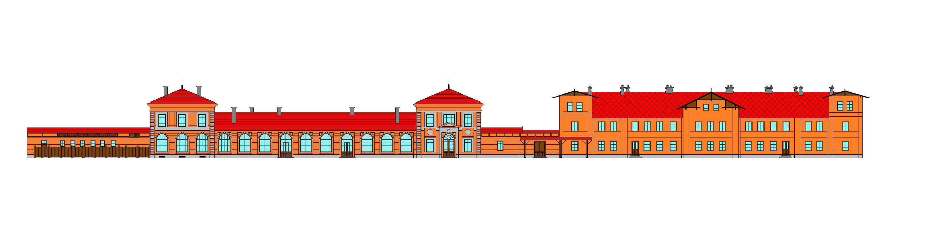 The nonexistent railway station in Hradec Králové, Czech republic, the end of the 1890s. Was found at the same place, what the present station Hradec Králové hlavní nádraží.